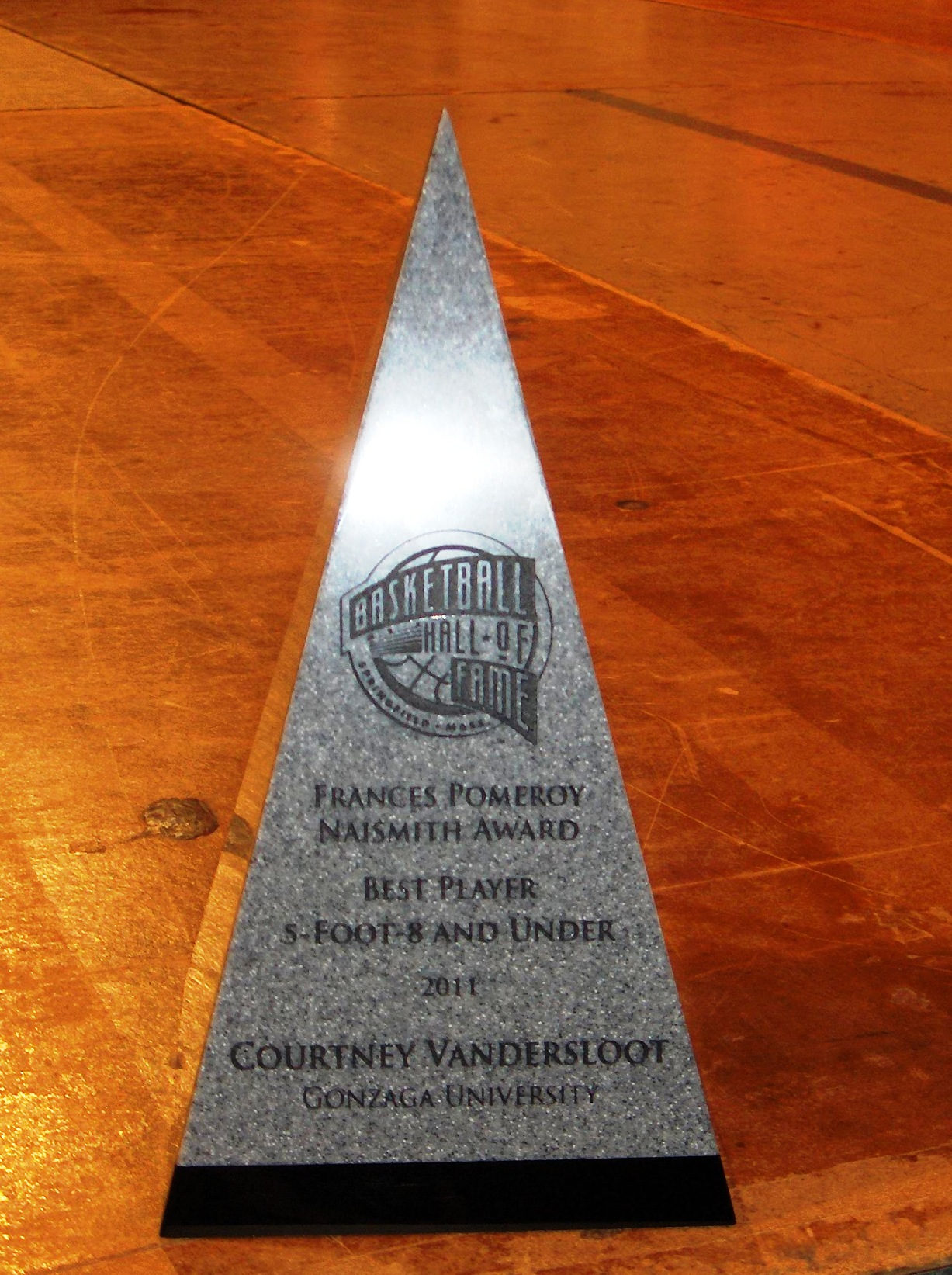 Photo of award taken at the Inaugural WBCA Show, Monday 4 April 2011 in the Sagamore Ballroom of the Indiana Convention Center, Indianapolis Indiana.